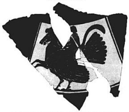 Representation of a "cock-horse on an ancient etruscan vase